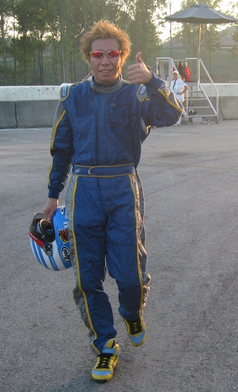 Eiji "Tarzan" Yamada, a drifting (auto racing) superstar and American Formula D Drifting judge, at Virginia International Raceway (United States) on Oct 6th 2007 Photo by: Sherry Lambert